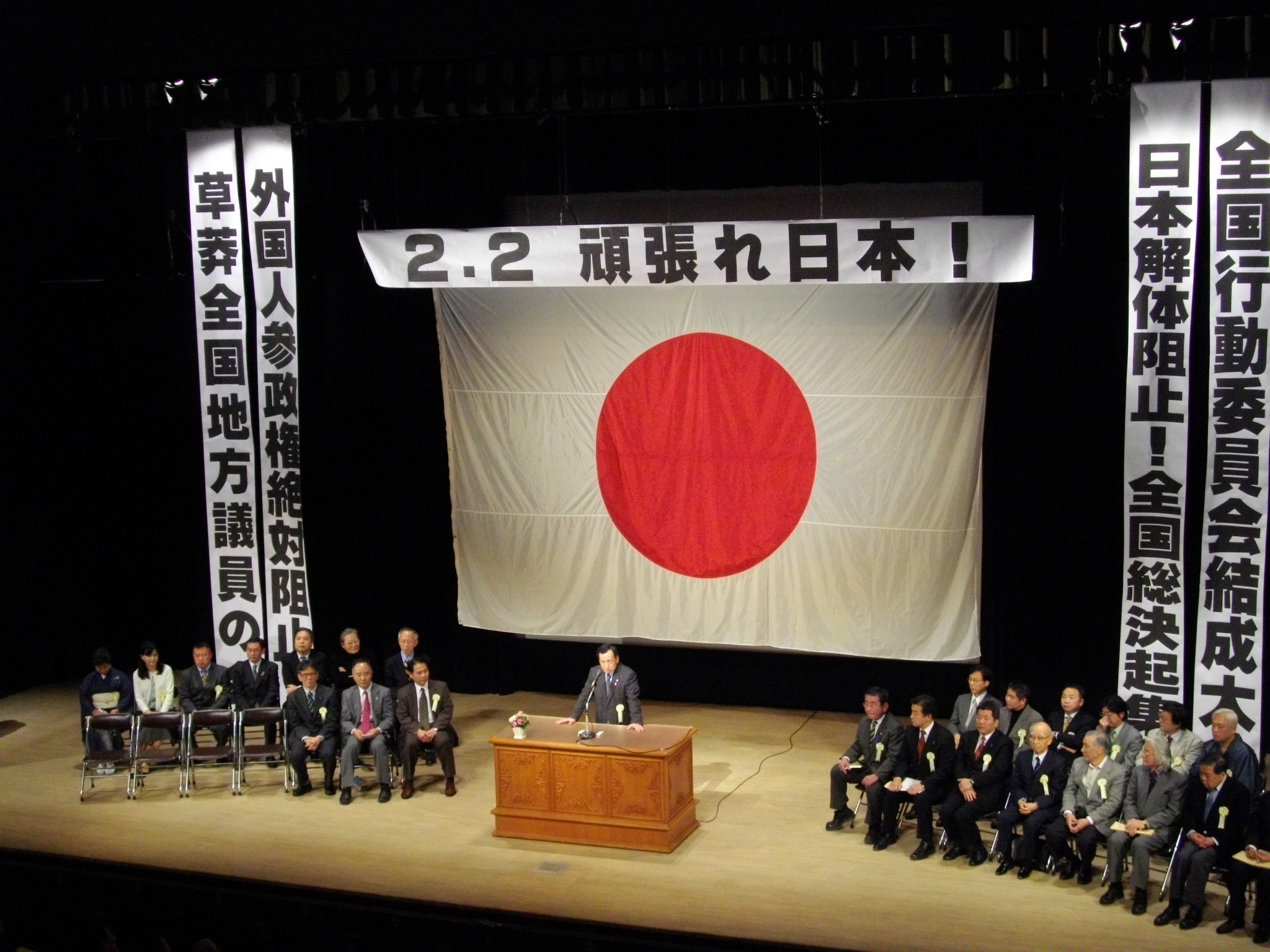 Inaugural Meeting of Gambare Nippon! Zenkokukoudouiinkai